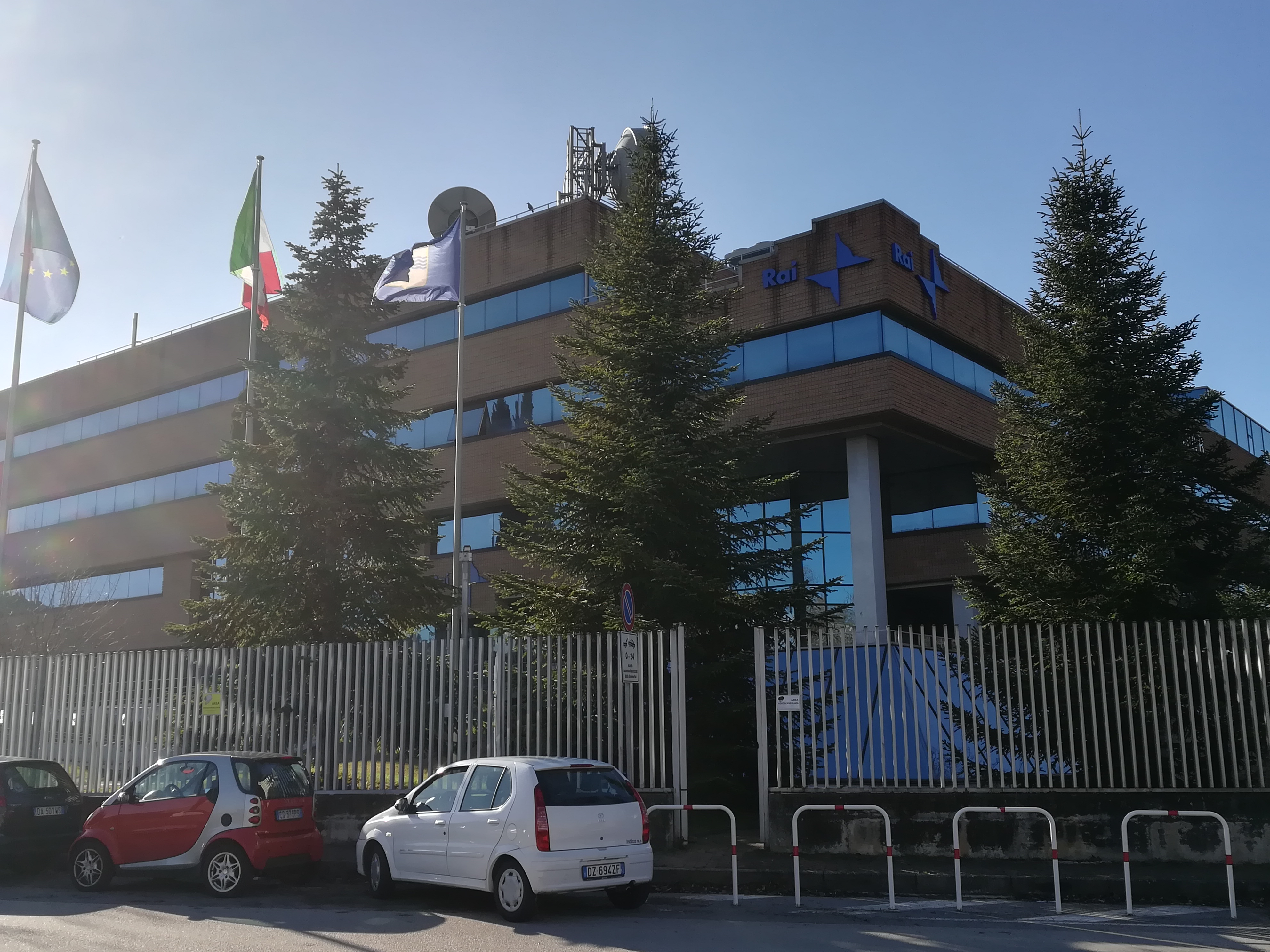 Rai - Radiotelevisione italiana, Regional branch for Basilicata